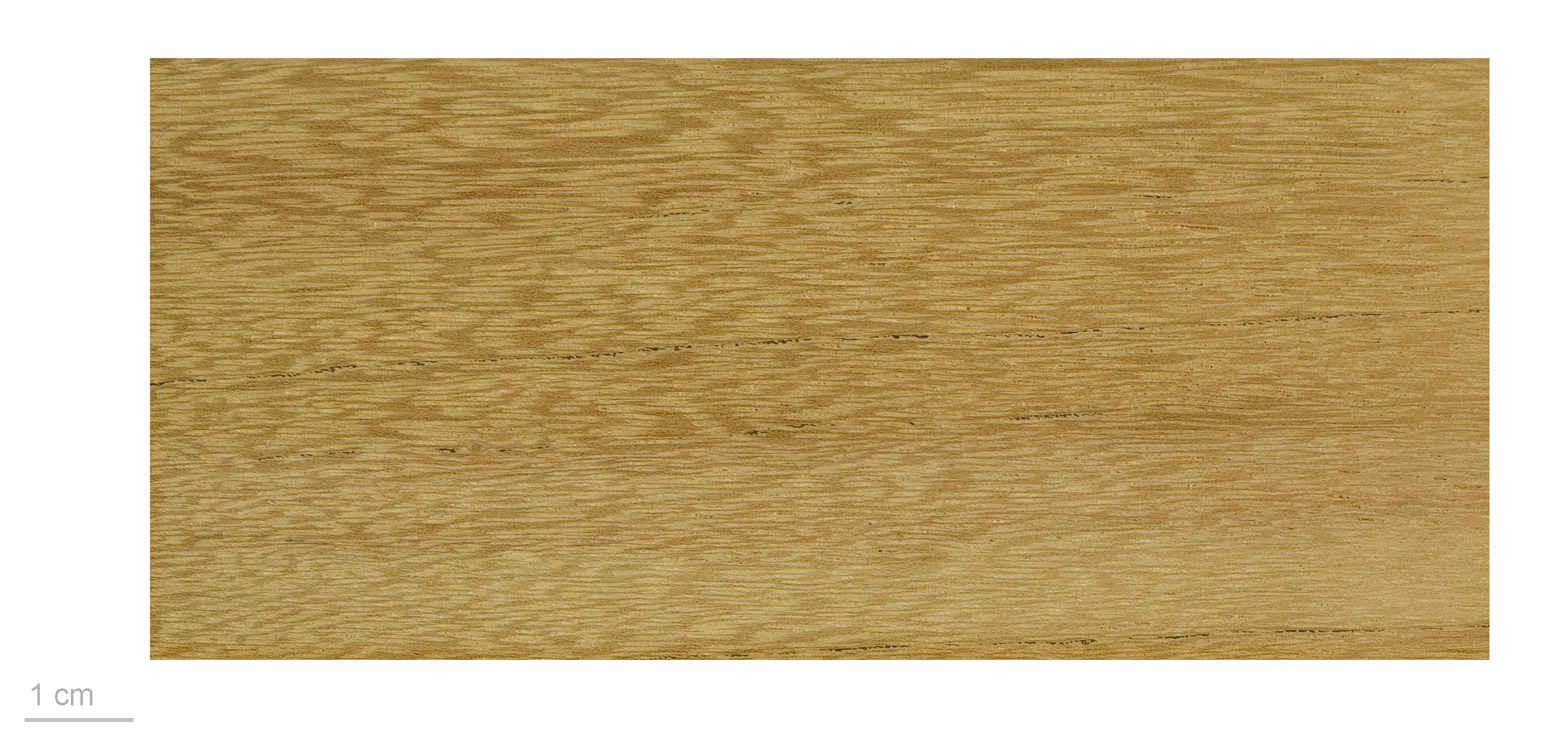 mandio , wood